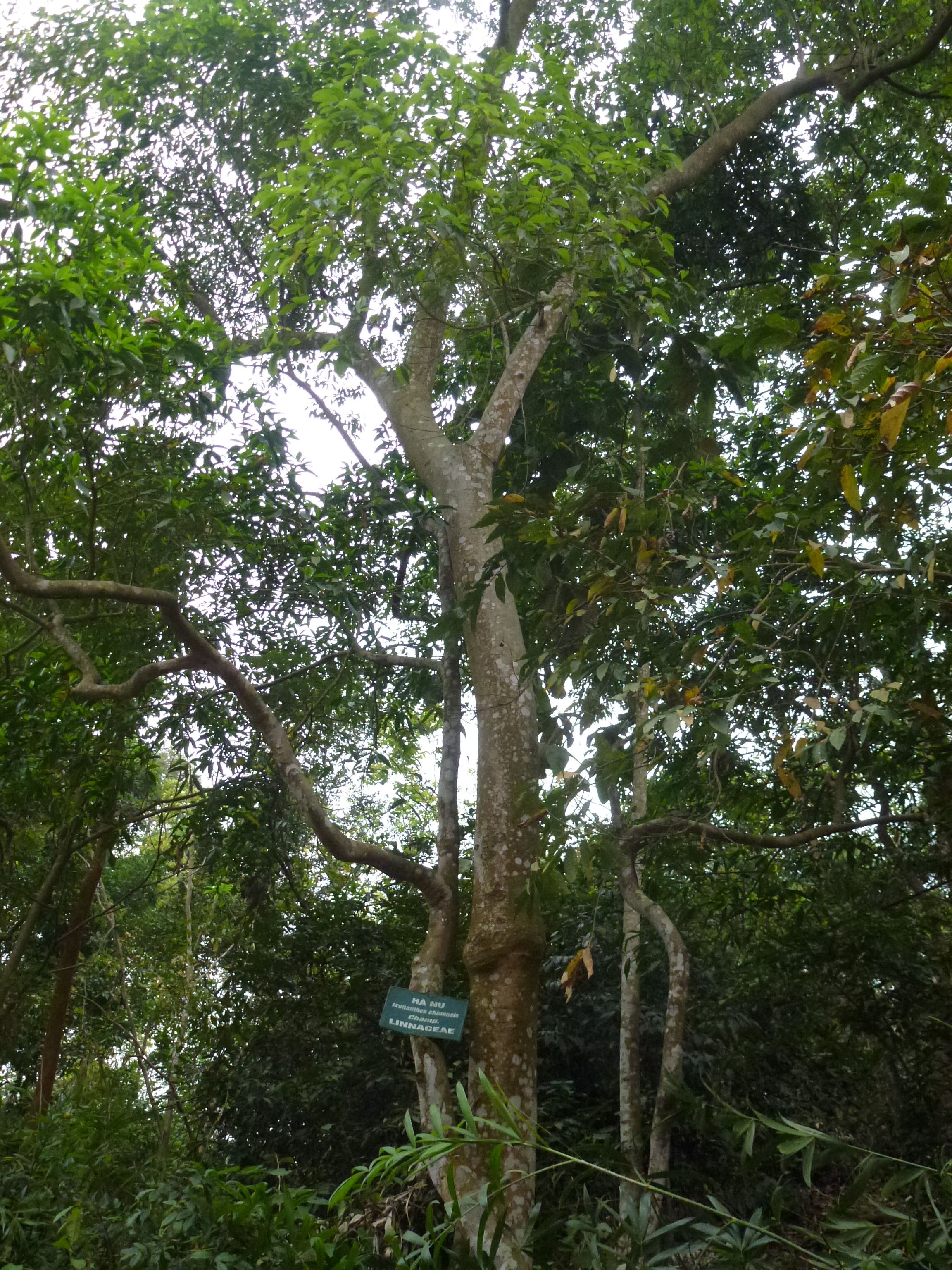 Ixonanthes chinensis at Hùng Temple, Vietnam